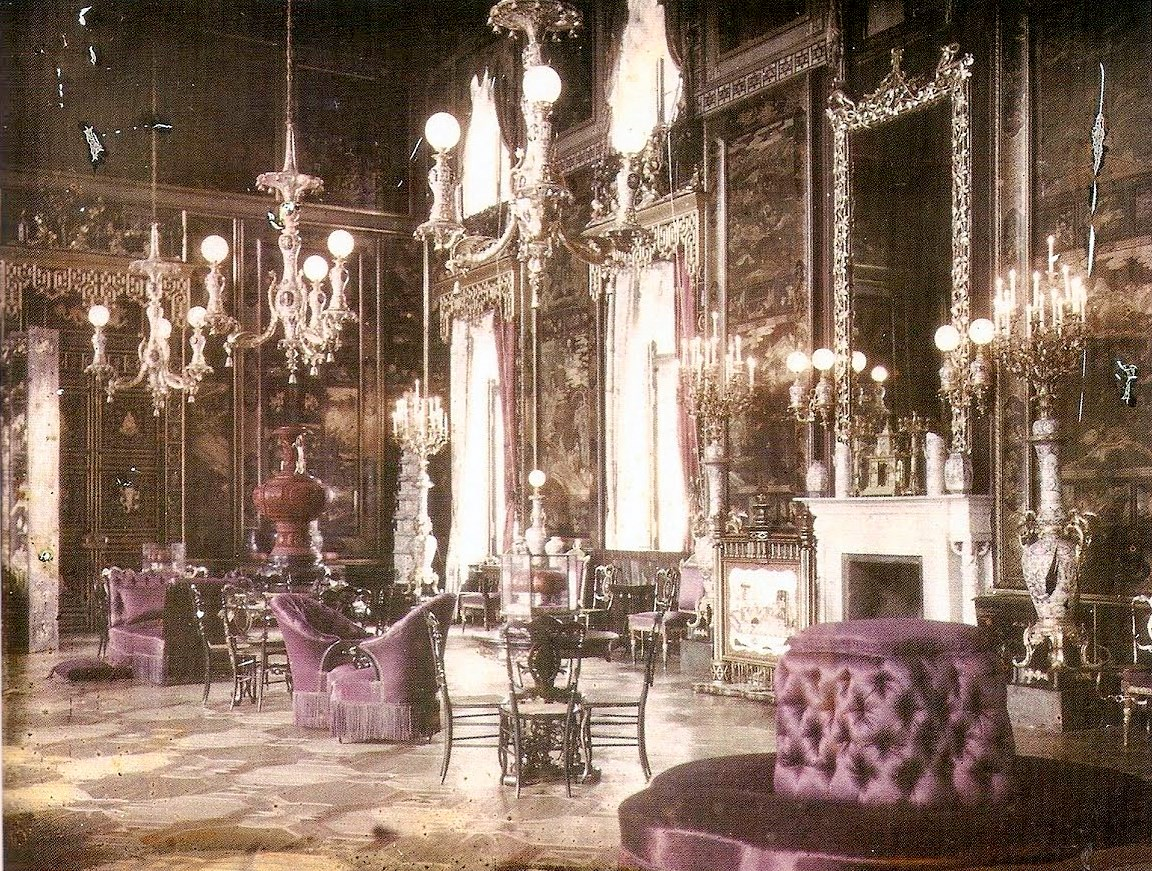 Tsarskoye Selo, Catherine Palace. Chinese Hall in 1917. Autochromes of Andrei Andreyevich Zeest are made in June-August 1917. Interiors photographing of Tsarskoye Selo was conducted on behalf of G. K. Lukomsky (chairman of the Commission for acceptance and registration estate management of the Tsarskoye Selo palace; the commission formed by the Provisional Government).